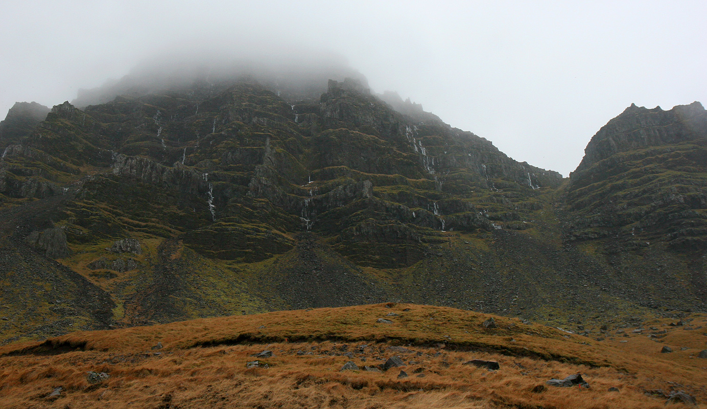 Cliffs west of the ring road, near Kambanes, east of Breiðalsvík, November 23 13:08 Iceland, November 2007 Photo by me user:debivort (or friend, with permission given to freely license photo).